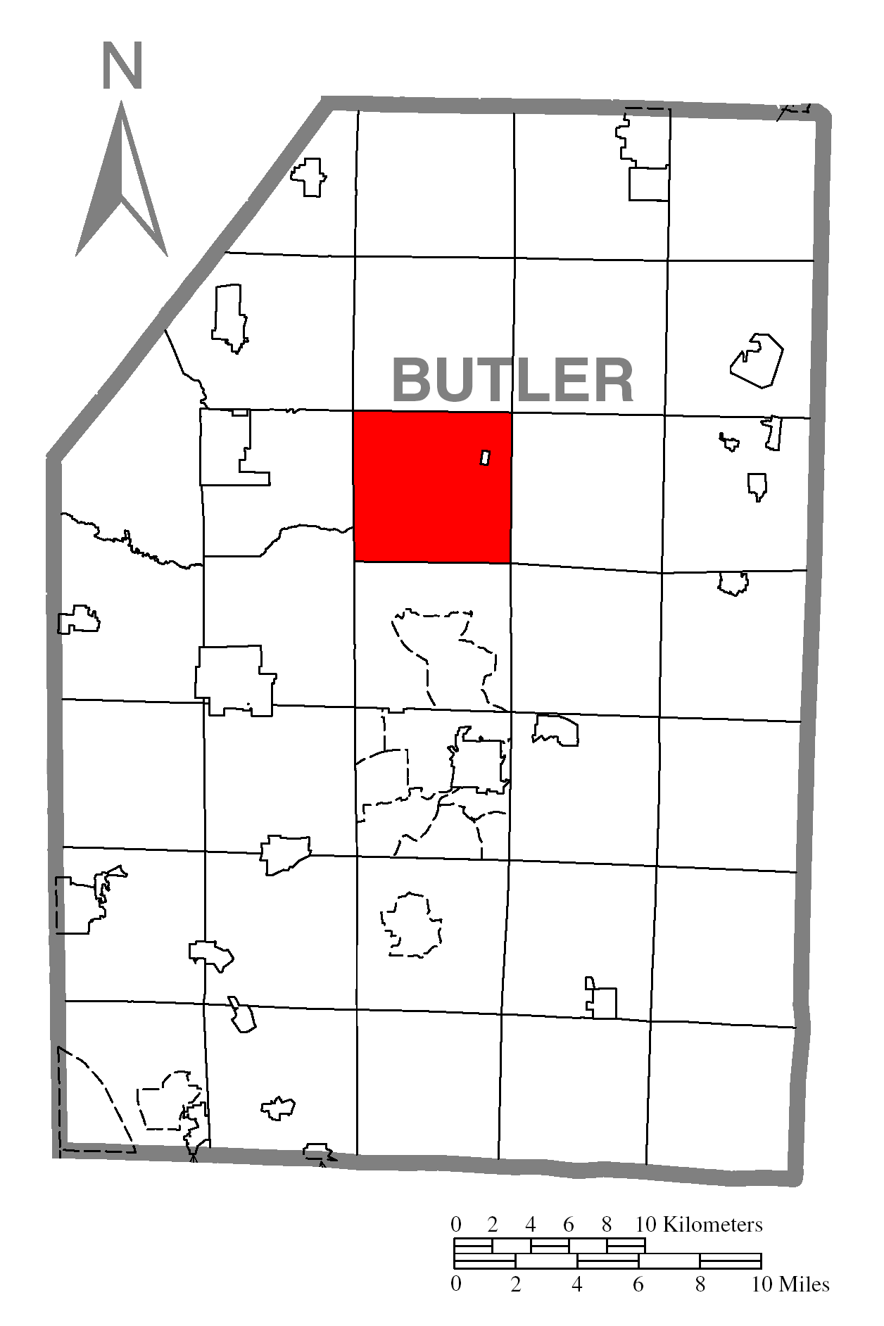 A map of Butler County showing Clay Township, Pennsylvania (alternate) highlighted on the map.